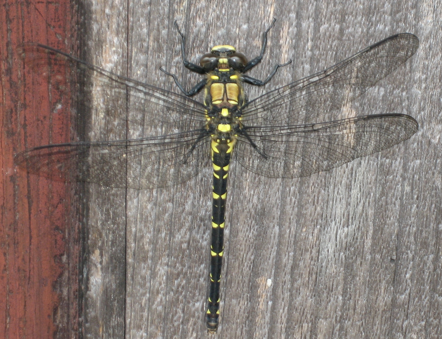 dragonfly Tanypteryx pryeri from Miyajima island nea Hiroshima, Japan